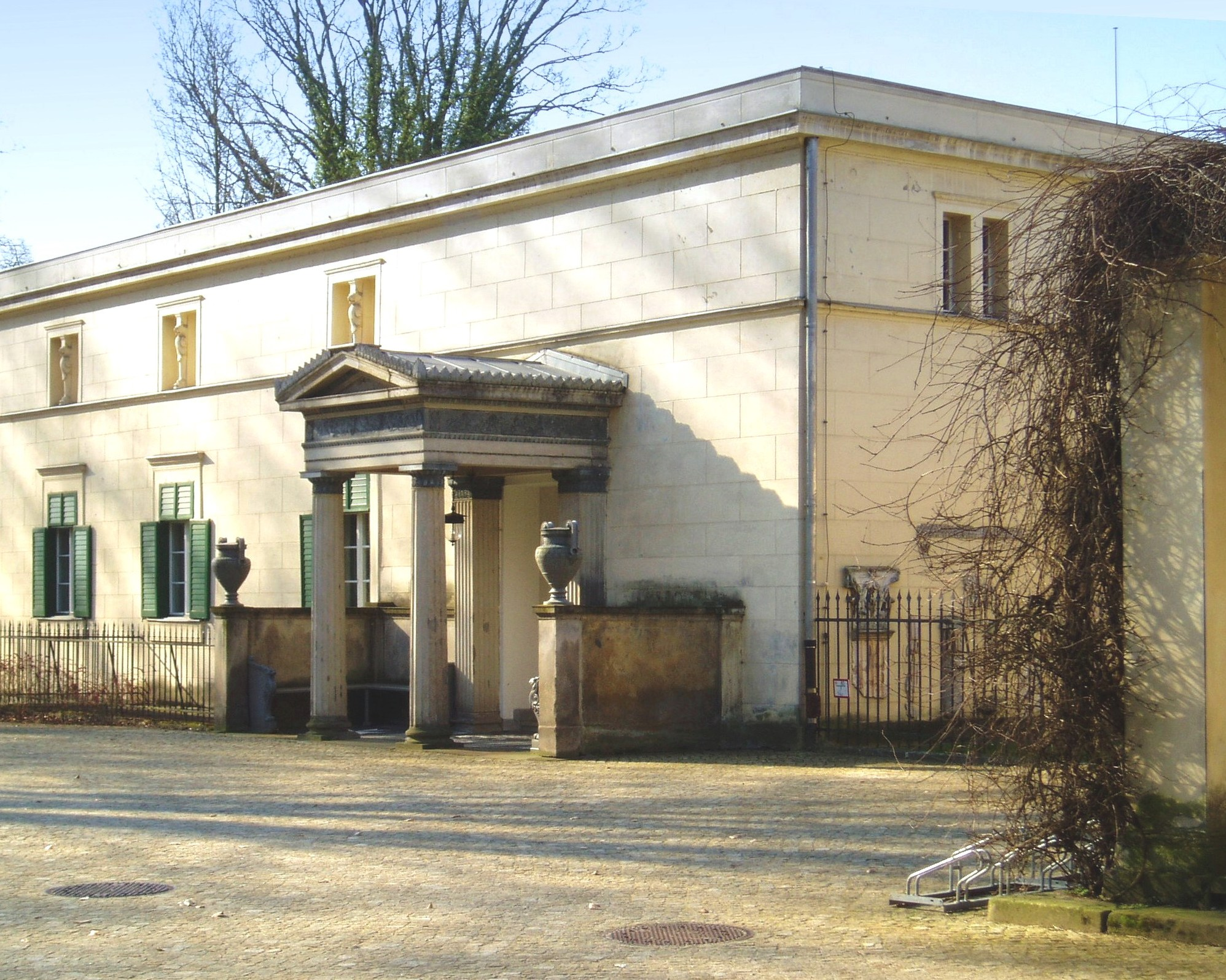 Court ladies wing with portico, Glienicke castle, Berlin, Germany